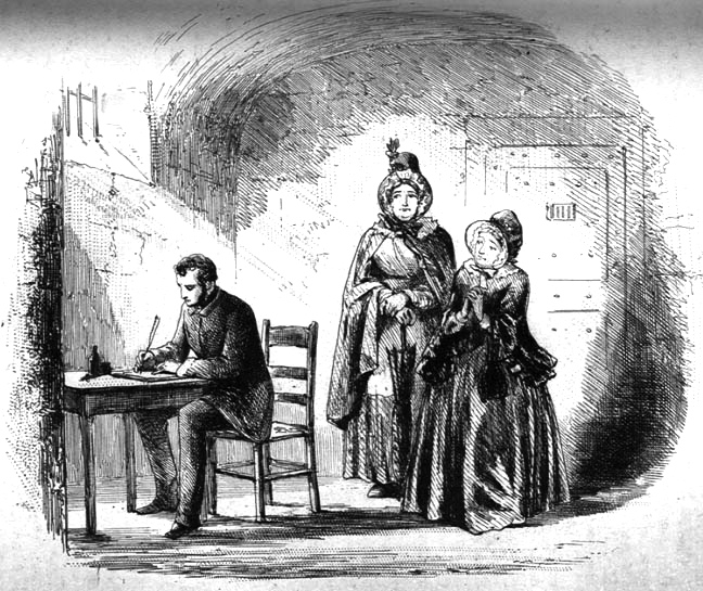 Mrs. Bagnet Returns from her Expedition by "Phiz" (Hablot Knight Browne) for Bleak House, p. 530 (ch. 55, "Flight"). 4 1/8 x 5 1/16 inches.